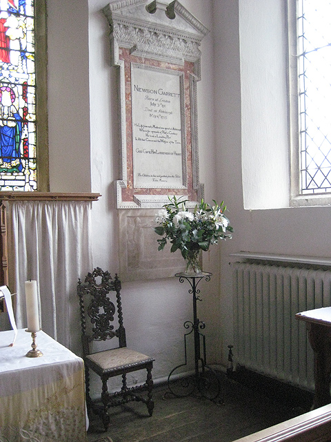 Corner of Lady chapel, Aldeburgh parish church In this corner of SS Peter & Paul, the memorials to Newson (above) and Louisa Garrett (below) the parents of Elizabeth Garrett Anderson, first woman doctor in England and first female mayor (here in Aldeburgh).